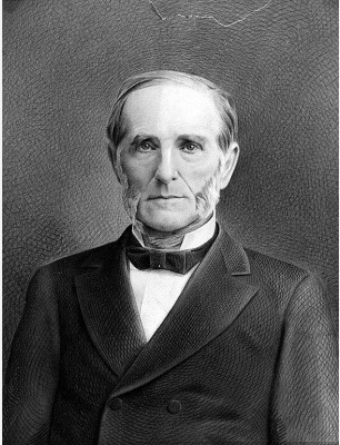 Noah C. McFarland as Commissioner of the General Land Office. Charcoal on paper drawing.